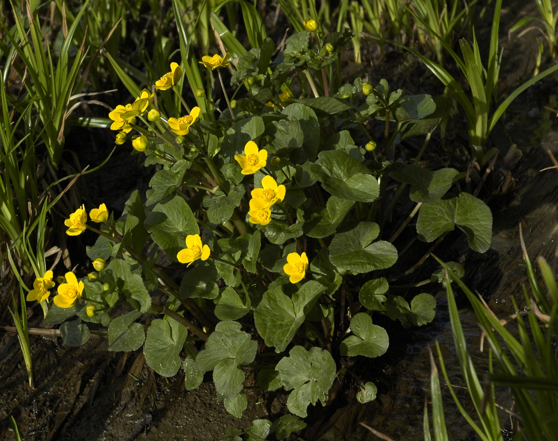 C. palustris in Norway, May 2007. By a brook in a field